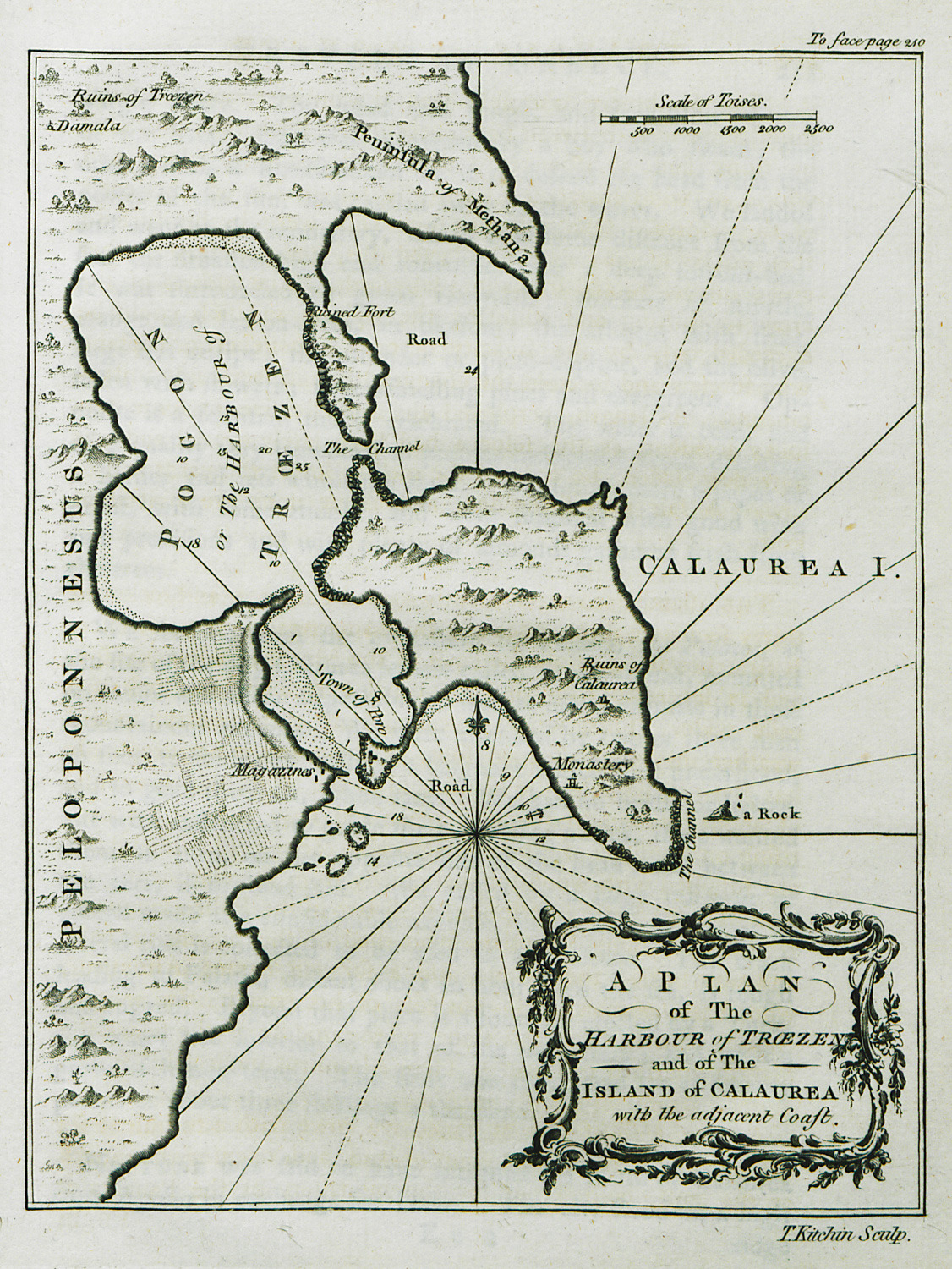 A plan of the Harbour of Troezen and of the Island of Calaurea with the adjacent coast - Chandler Richard - 1776